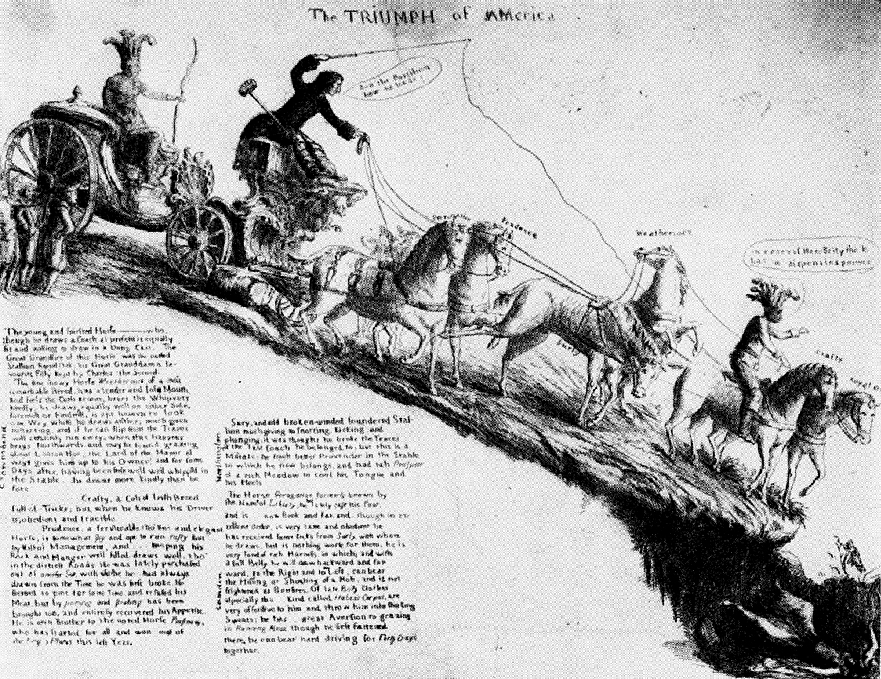 "The Triumph of America" - Lord Pitt drives America's triumphal chariot into the abyss. The horses symbolize various members of Pitt's administration. This cartoon appeared in London newspapers in 1766.